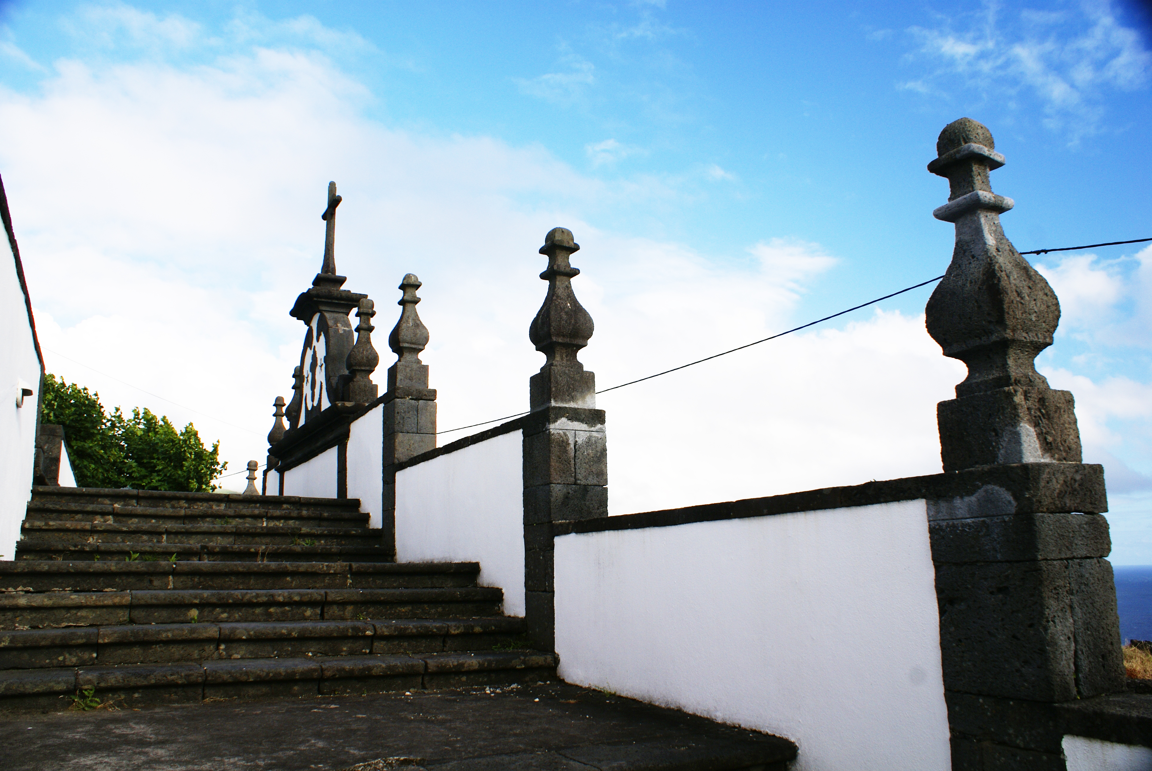 Igreja de Santa Ana, escadaria de acesso, Capelo, concelho da Horta, ilha do Faial, Açores, Portugal